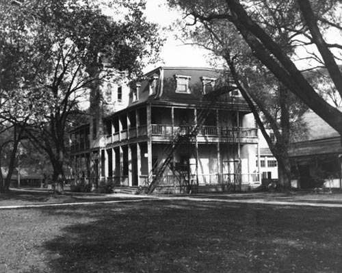 View of Ward's Hotel on Ward's Island, Toronto Island (Toronto, Canada)